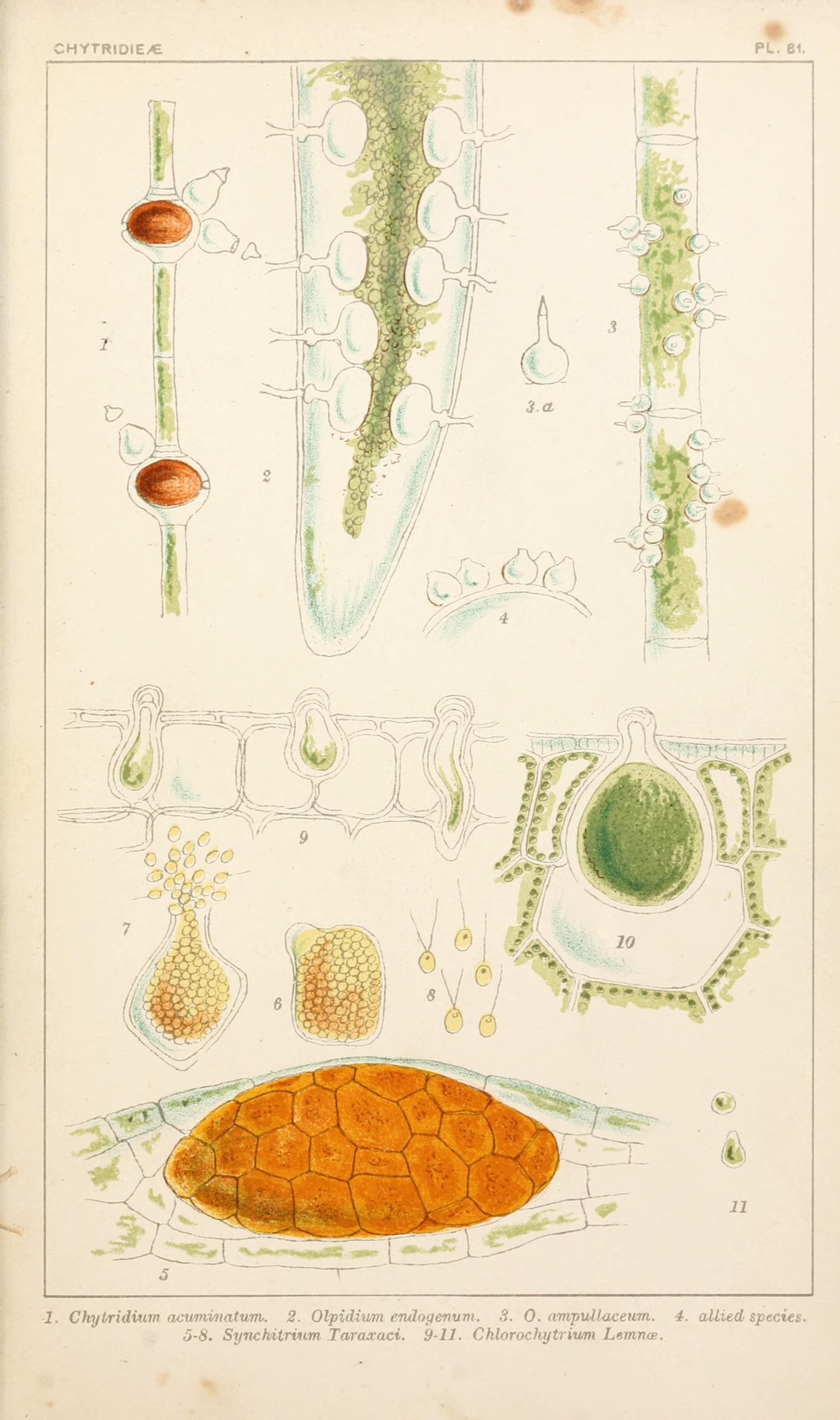 Title: British fresh-water algae, exclusive of Desmidieae and Diatomaceae Year: 1882-1884 (1880s) Authors: Cooke, M. C. (Mordecai Cubitt), b. 1825 Subjects: Algae -- Great Britain Publisher: London, New York, Williams and Norgate Text Appearing Before Image: ; Text Appearing After Image: 21 1. Chytridixim acwniniatum. 2. Olpidium endogenum. 3. 0. ampul luce um. 4. allied species. 0-8. SynchitriAim Tarcuraci. 9-11. Chlorochytrium Lemnce.